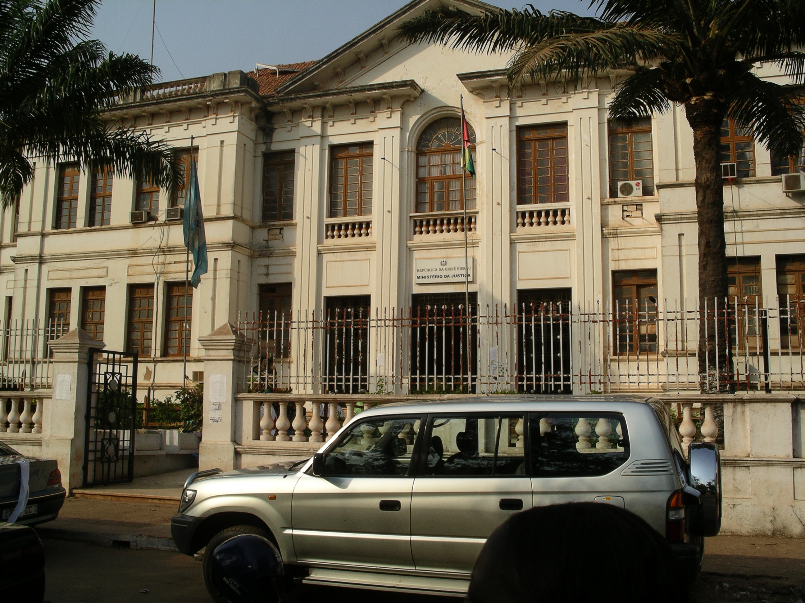 Built circa 1974[1]